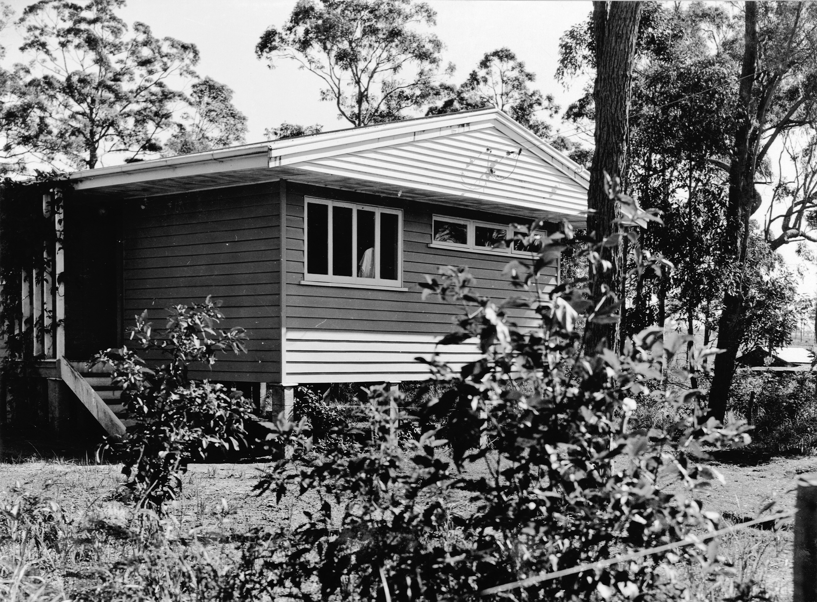 [Thanks to the wonderful Reddit detectives, the house has been identified as 66 Besline St and as of September 2017 it still exists.] The Courier-Mail 16 March 1951 700 State homes A new State Housing Commission estate will be established south-west of Kuraby and north of Compton Road. The Housing Minister (Mr. Hilton) said last night that more than 175 acres was being resumed. Erection of at least 700 houses was planned. Queensland State Archives, Digital Image ID 10273